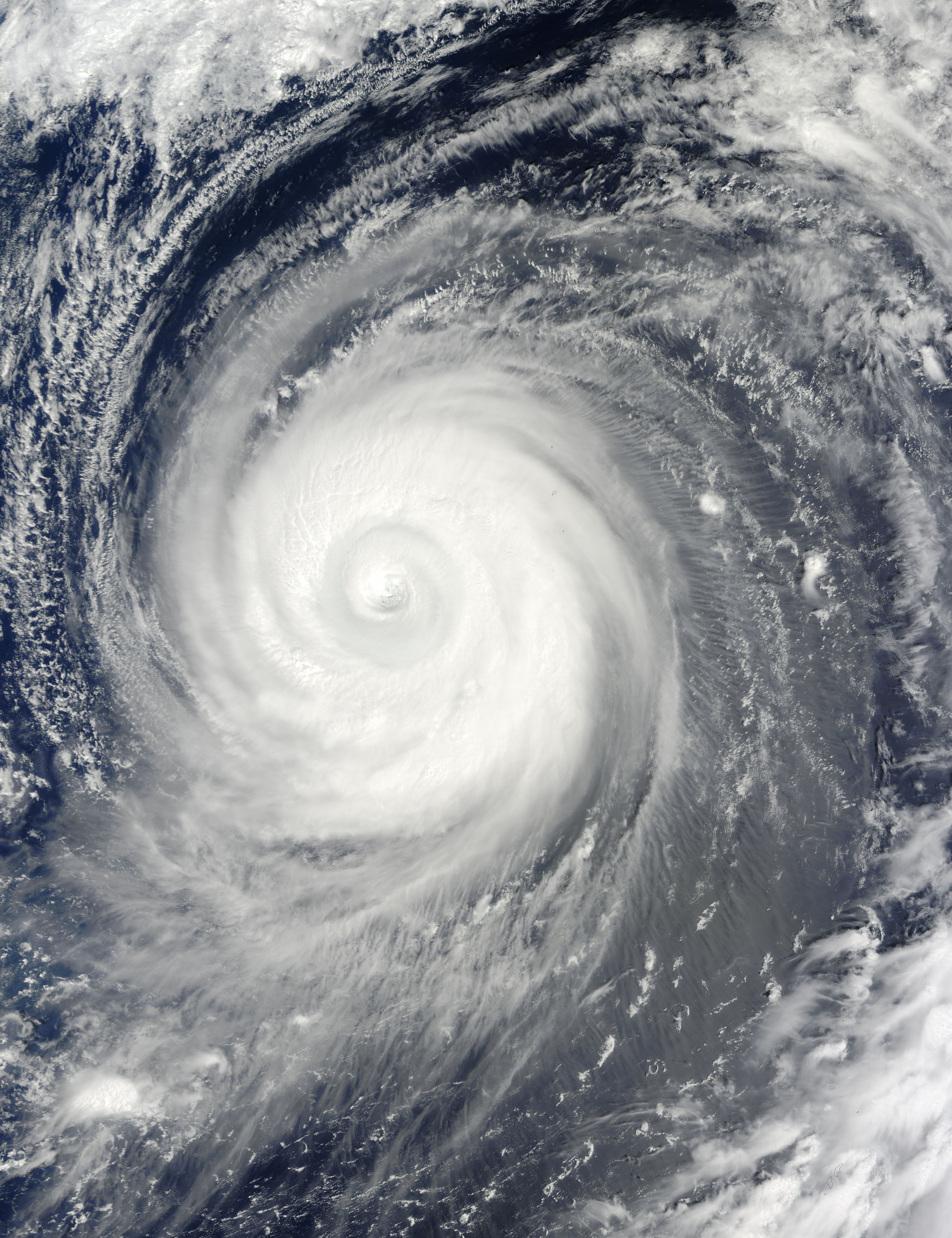 Typhoon Choi-wan had clearly degraded significantly by the time the Moderate Resolution Imaging Spectroradiometer (MODIS) on NASA’s Terra satellite captured this image on September 18, 2009. Though the storm maintains its tightly wound symmetric shape, the striking clear eye is gone. The storm has a cloudy eye in this image. At the time the image was taken, 1:15 UTC or 10:15 a.m. in Japan immediately north of the storm, Choi-wan was a Category 3 typhoon. It was no longer a super typhoon, a name reserved for strong Category 4 and 5 storms. Choi-wan had winds of about 200 kilometers per hour (125 miles per hour or 110 knots), said the Joint Typhoon Warning Center. The storm was forecast to continue to weaken as it moved northeast.